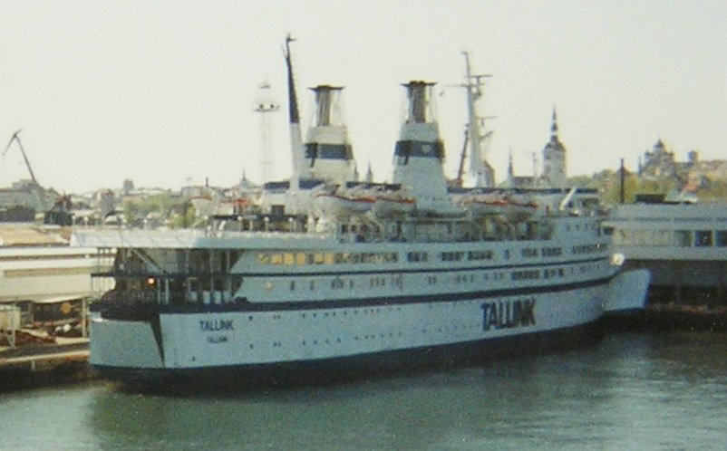 M/S Tallink in Tallinn harbour in spring 1994. This is a digital photograph of the original (paper) photo, hence the poor quality.